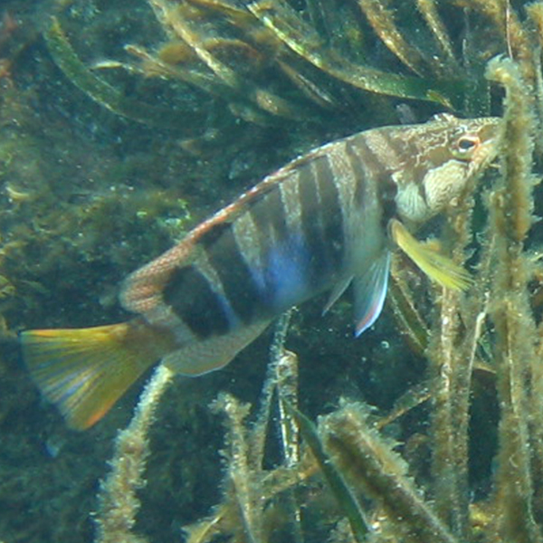 Comber (Serranus scriba) caught in the waters of the Parc National de Port-Cros.